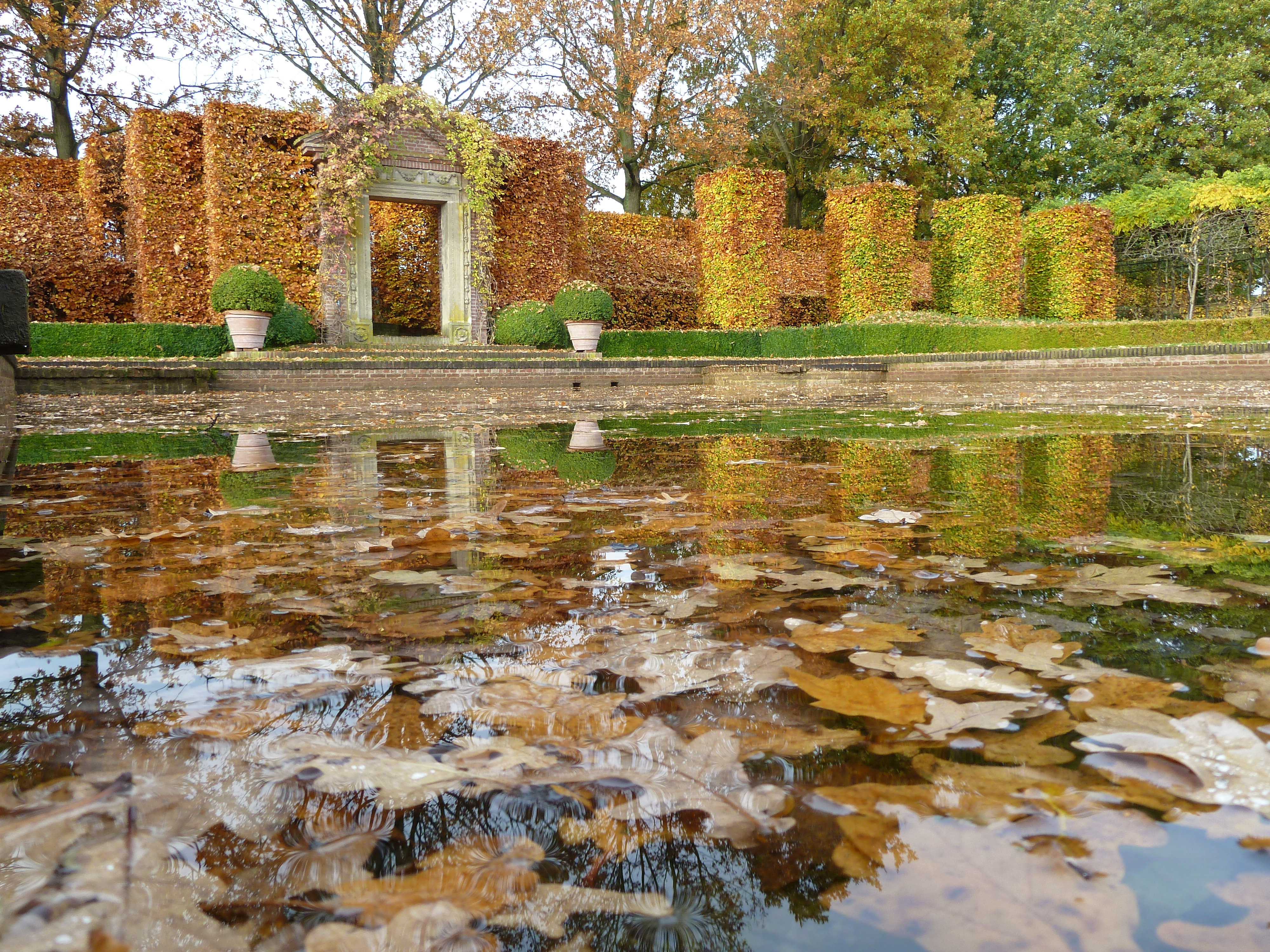 Museum De Buitenplaats - spiegelvijfer